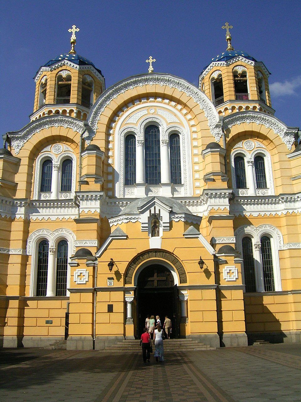 Description: St.Vladimir Cathedral in Kiev Author: Alexander Noskin Date: 8-23-2005